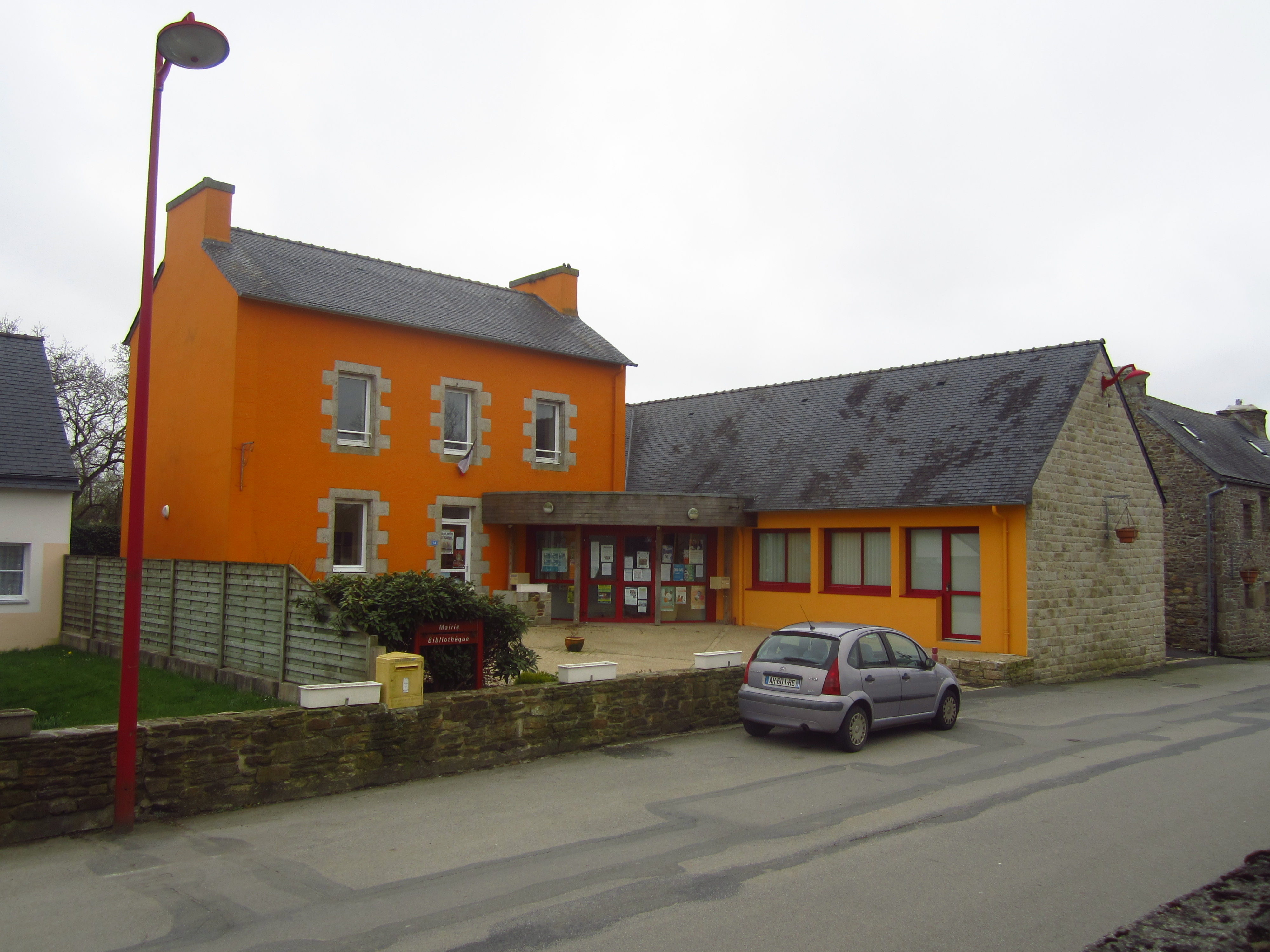 Town hall of Saint-Derrien, Finistère